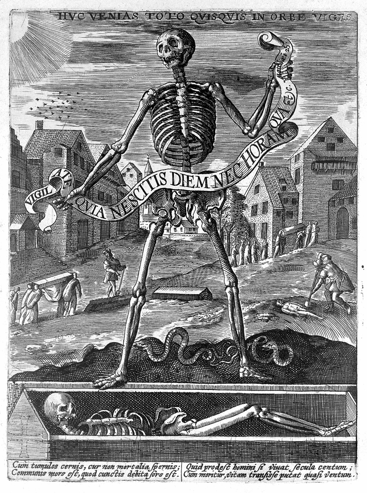 Allegory of death: skeleton holding banderolle "Vigilate quia nescitis diem ...", anon., possibly Dutch or German Wellcome Images Keywords: Death; Skeleton